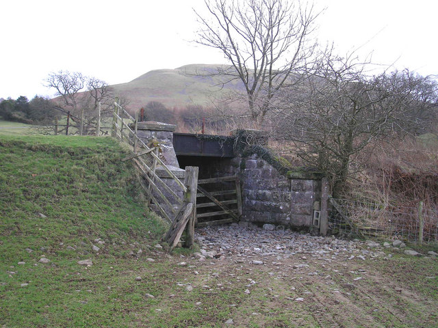 Bridge north of Barbon A bridge which carried the now disused Clapham to Tebay railway line. Barbon Low Fell is in the background.